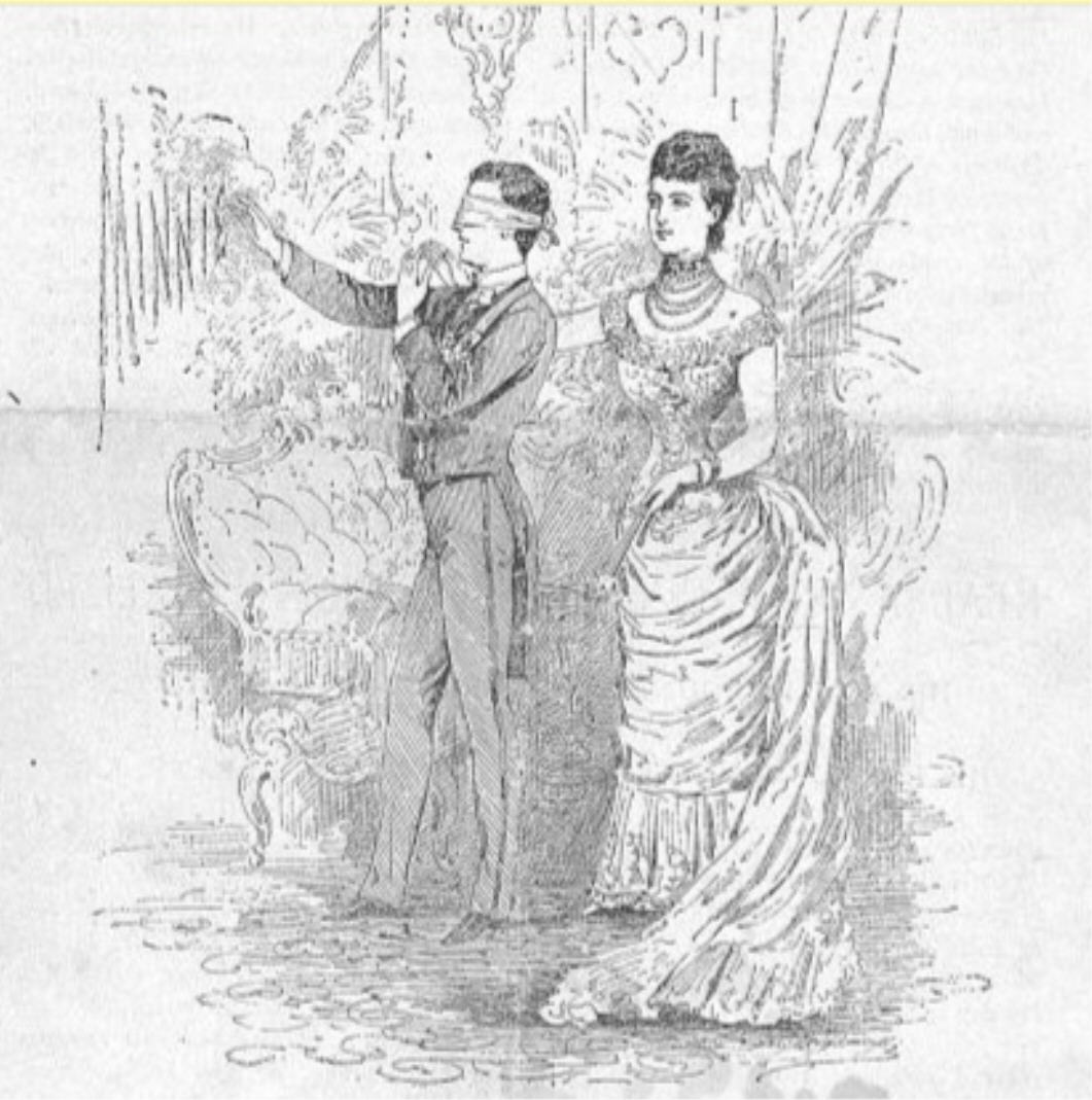 Washington Irving Bishop und Alexandra von Wales